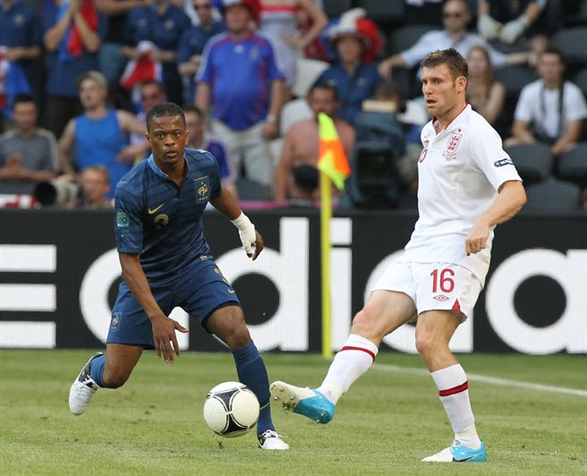 UEFA Euro 2012 match between France and England played in Donetsk at Donbas Arena. Final result was 1:1 (Nasri, Lescott).